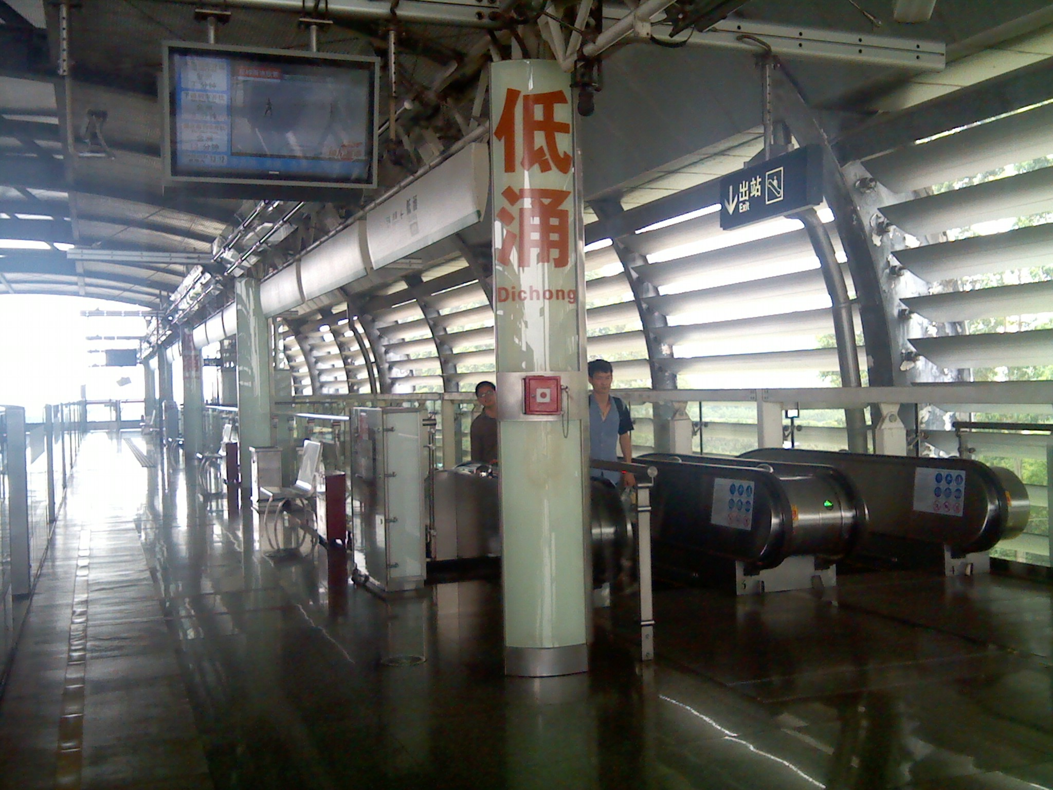 车站月台（金洲方向）